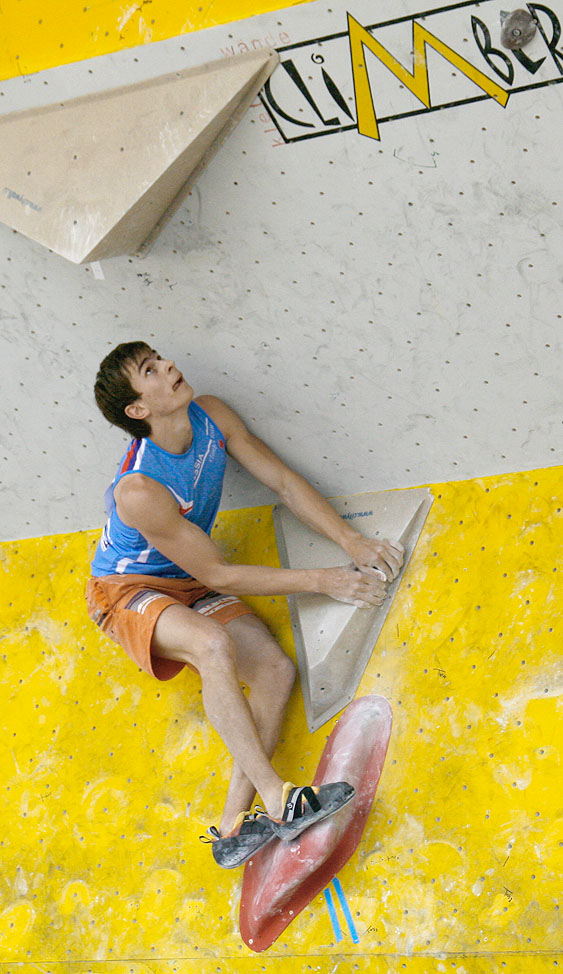 Arman Ter-Minasyan during qualifications at the IFSC Boulder Worldcup Vienna 2010.